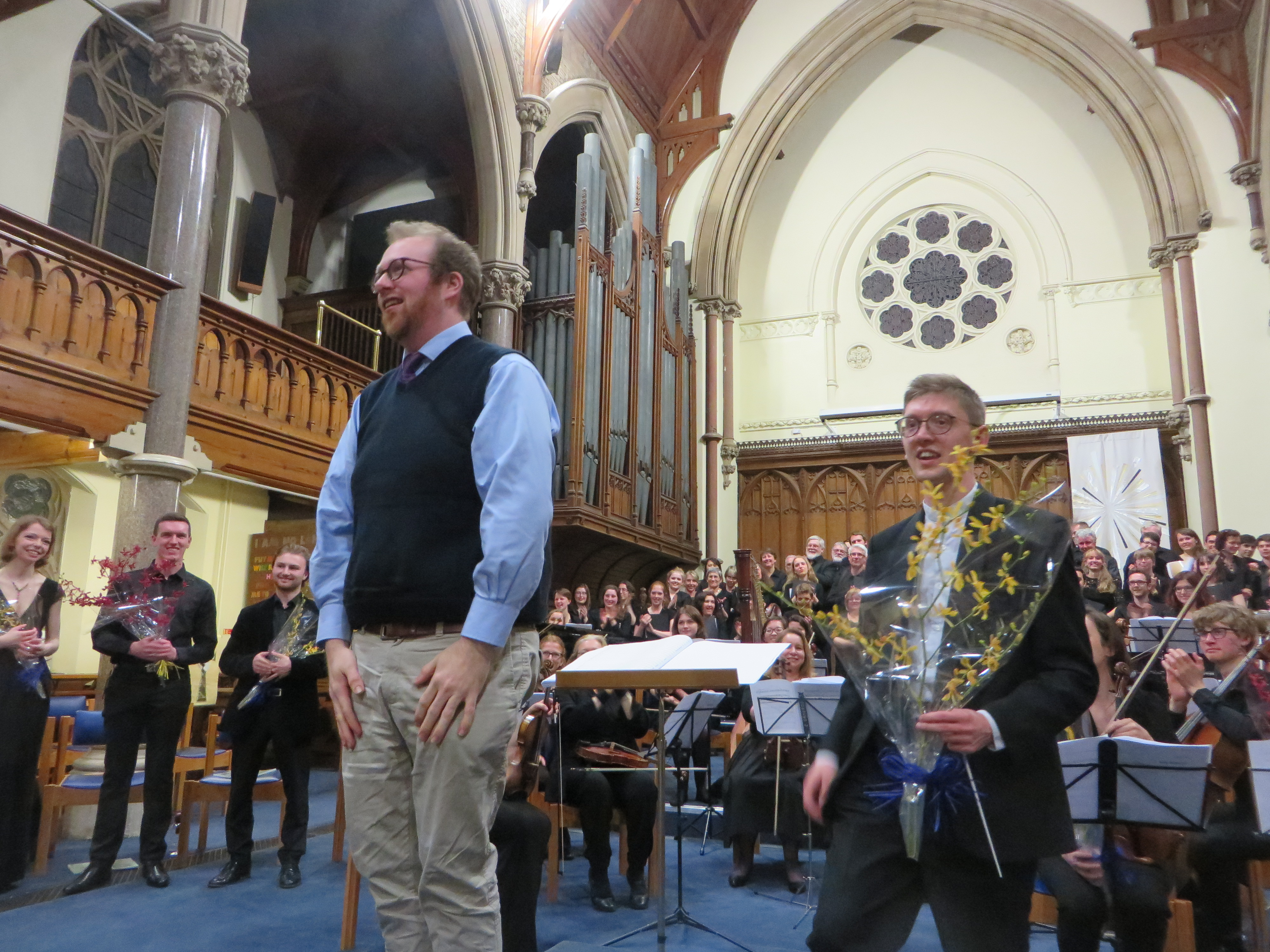 Composer Oliver Tarney and conductor Tomos Watkins at the end of a 40th anniversary concert by the Arcadian Singers of Oxford, held on 30 April 2016 with music by Thomas Tallis (the 40-part Spem in alium composed c. 1570), Herbert Howells (his unpublished Requiem of 1932), and Oliver Tarney (Magnificat, a 2014 composition) in Wesley Memorial Church, New Inn Hall Street, Oxford, England